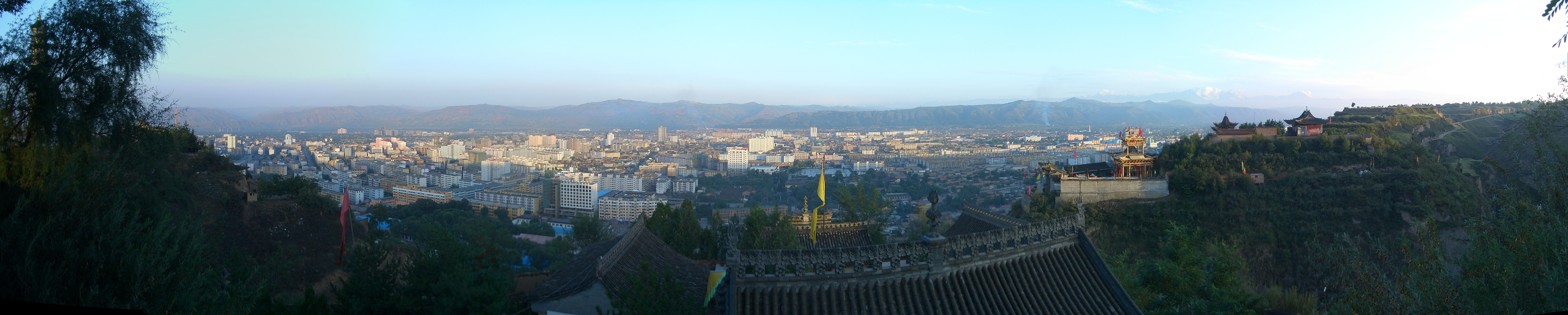 Panorama of Linxia City seen from the loess plateau escarpment on the north edge of the city, near Wanshou Guan's pagoda. The image is obtained by stitching several photos with Hugin, using cylindrical projection.